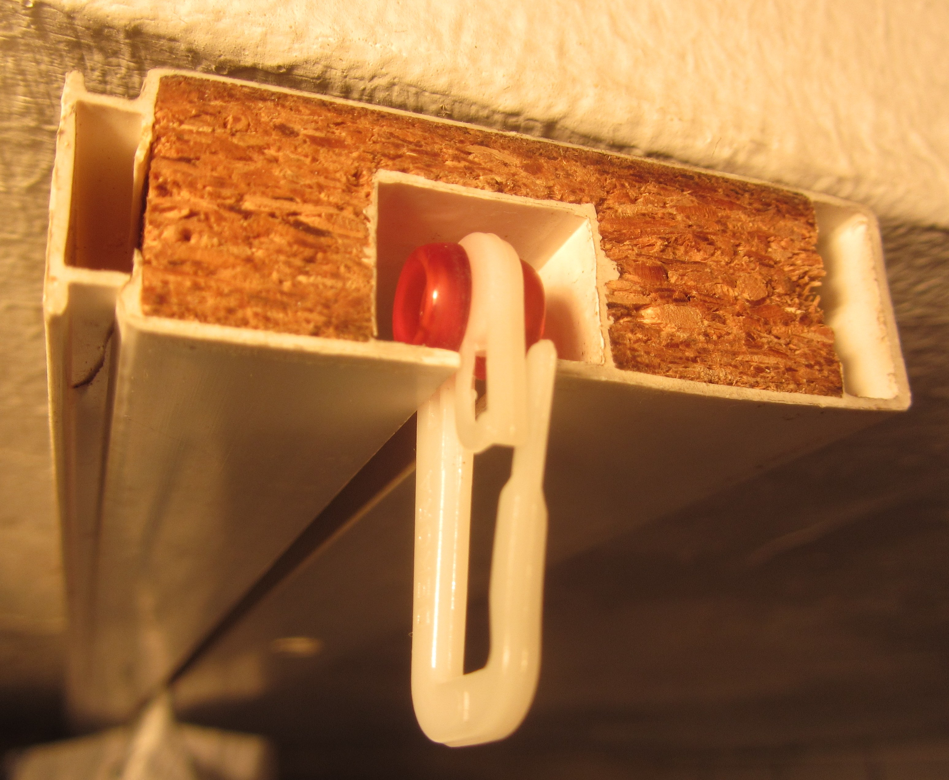 Curtain rail with inner running rollers. This principle is also in use in certain suspended monorail systems